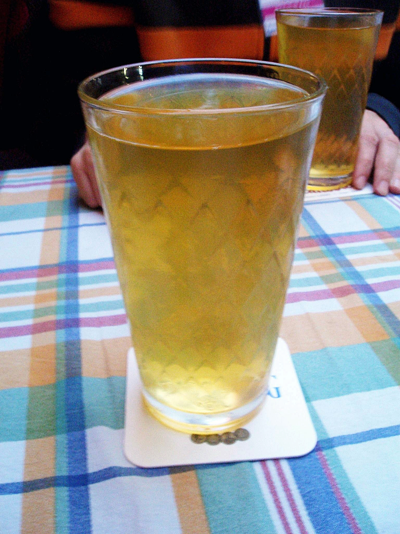 Apple wine, a type of Country wine in a glass. The photo was taken 5th August 2005 by User:Edward at Wikimania in Frankfurt